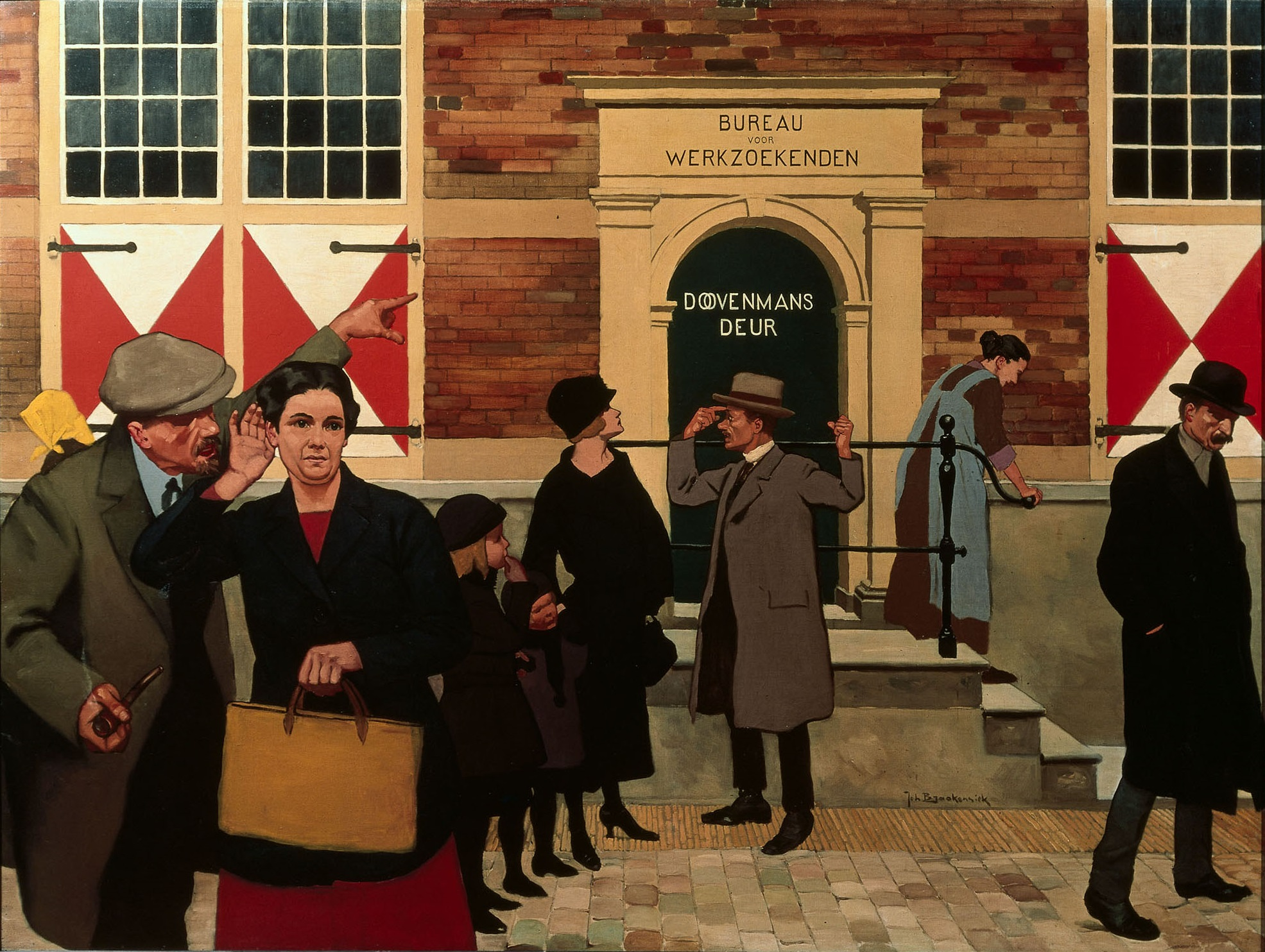 Unemployed people during the depressions years, waiting by the closed door of the job office. Passers-by seem to ignore their distress.